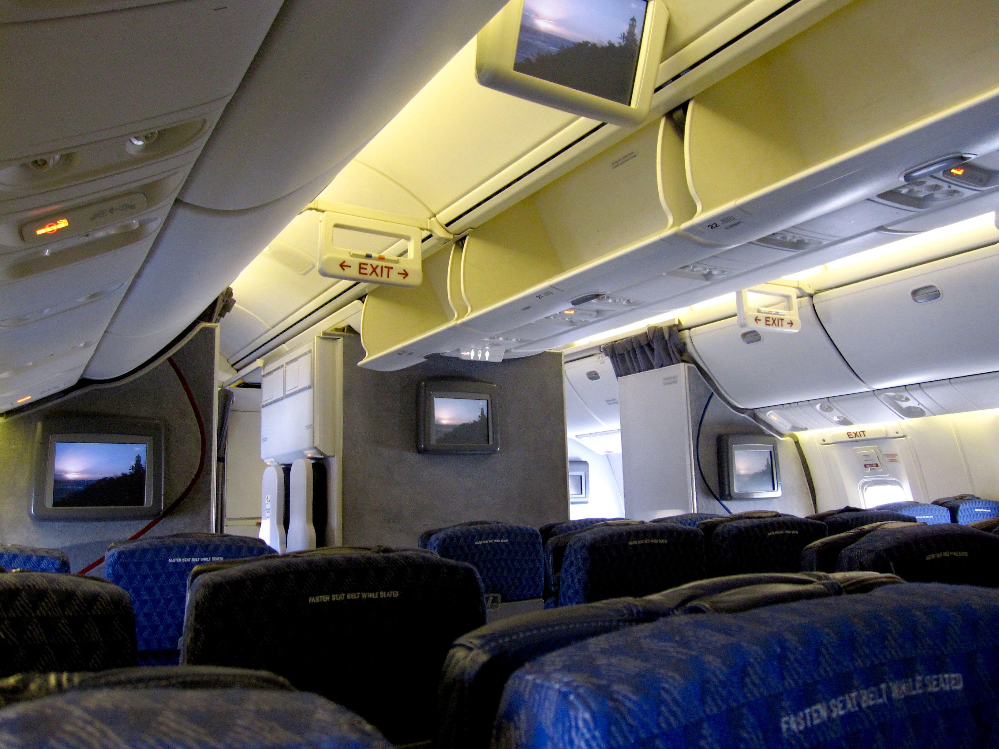 American Airlines Boeing 767-300ER economy class cabin on a domestic flight DFW-HNL in November 2009.